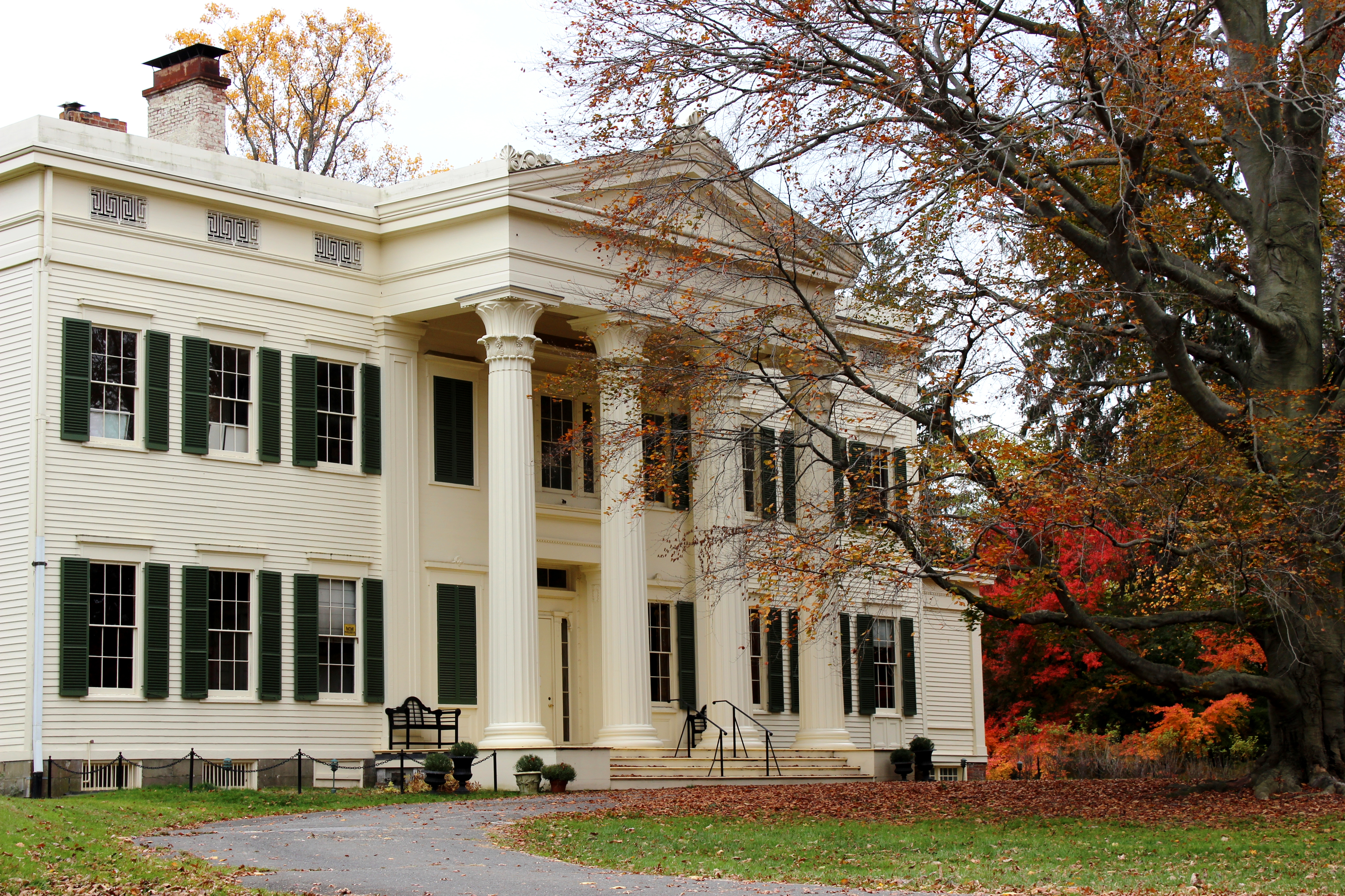 1838 Jay Mansion circa 2014